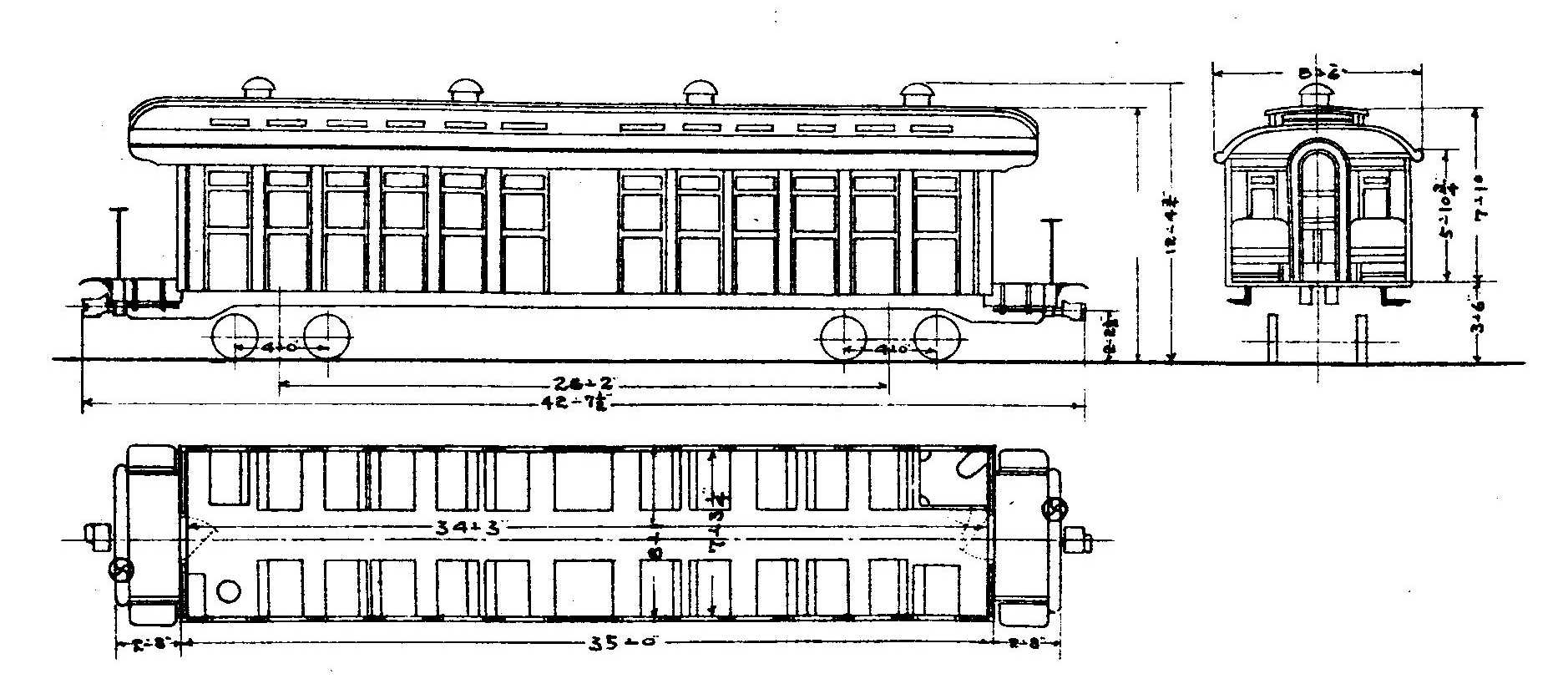 Type drawing of JGR's Kotoku5010 type passenger car "Kaitakushi-go"